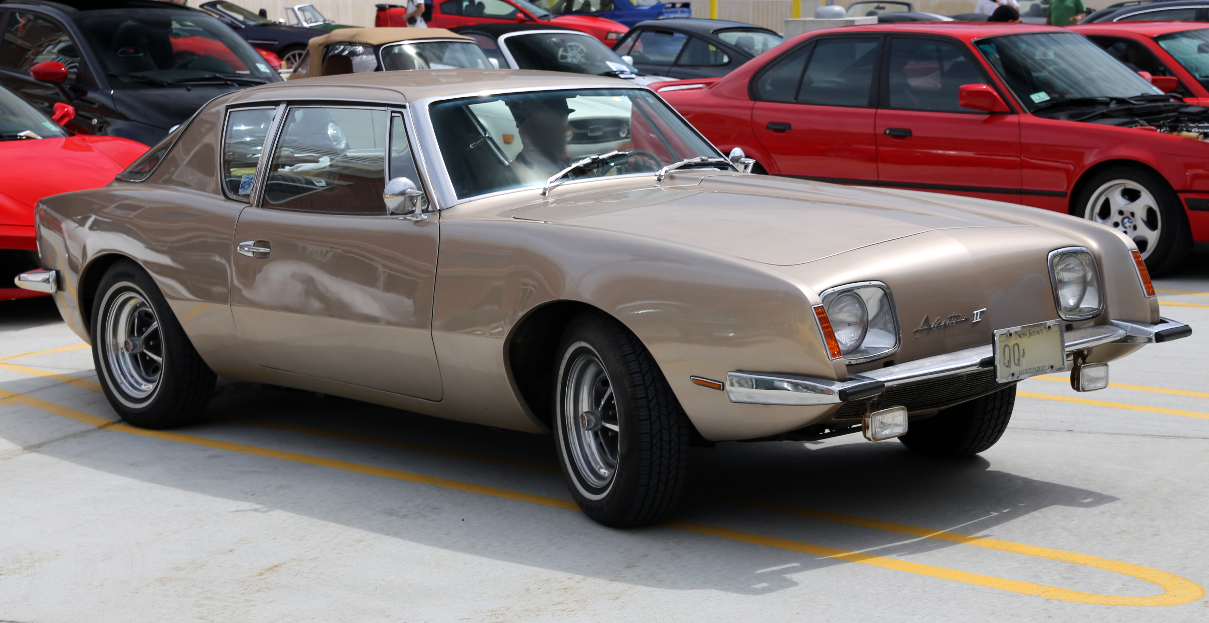 1967 Studebaker Avanti II. 327ci V8 and automatic gearbox, chassis number RQ-A0206